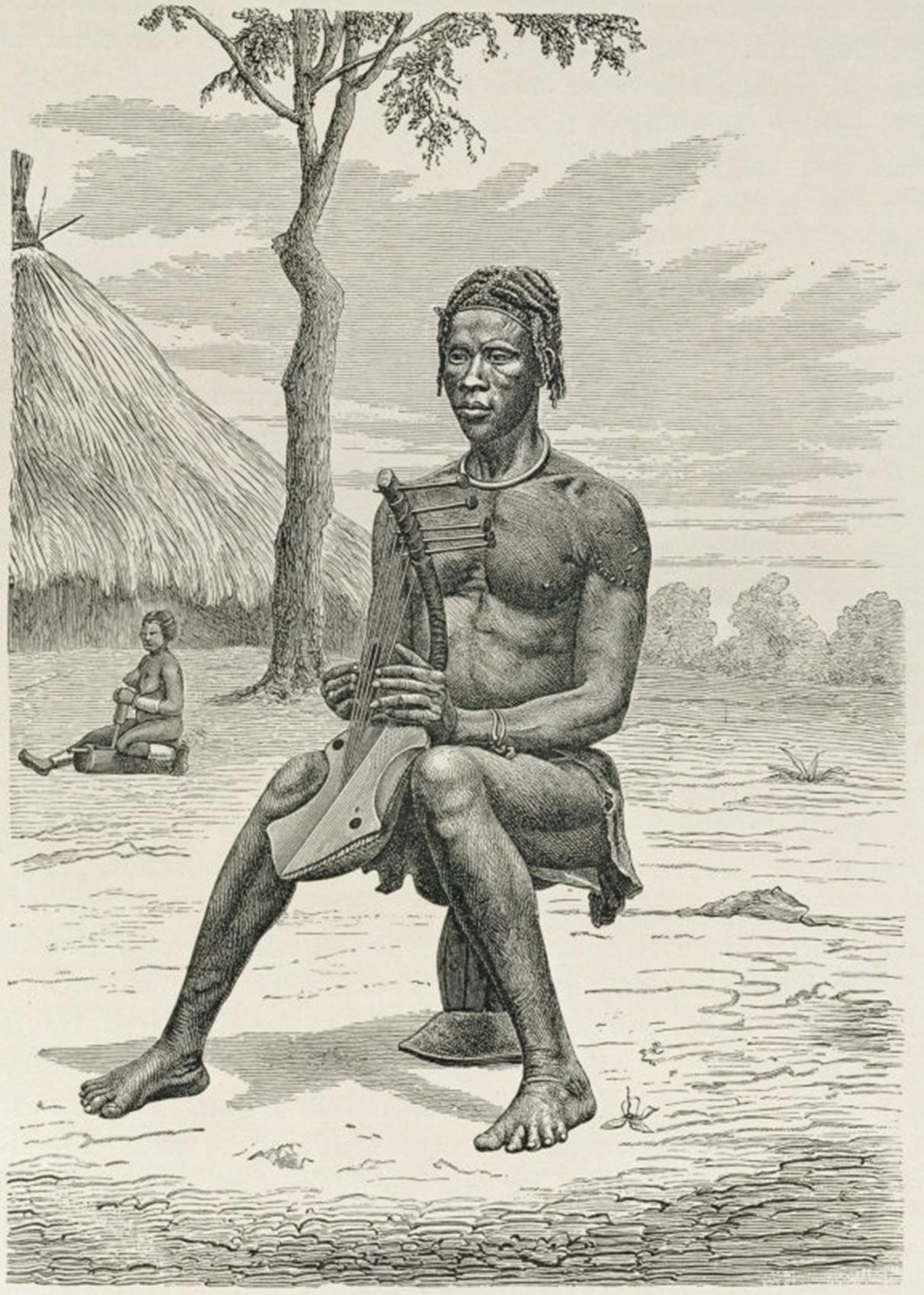 Harp Player of the Azandeh, from The History of Mankind by Prof. Friedrich Ratzel, Pub.1904